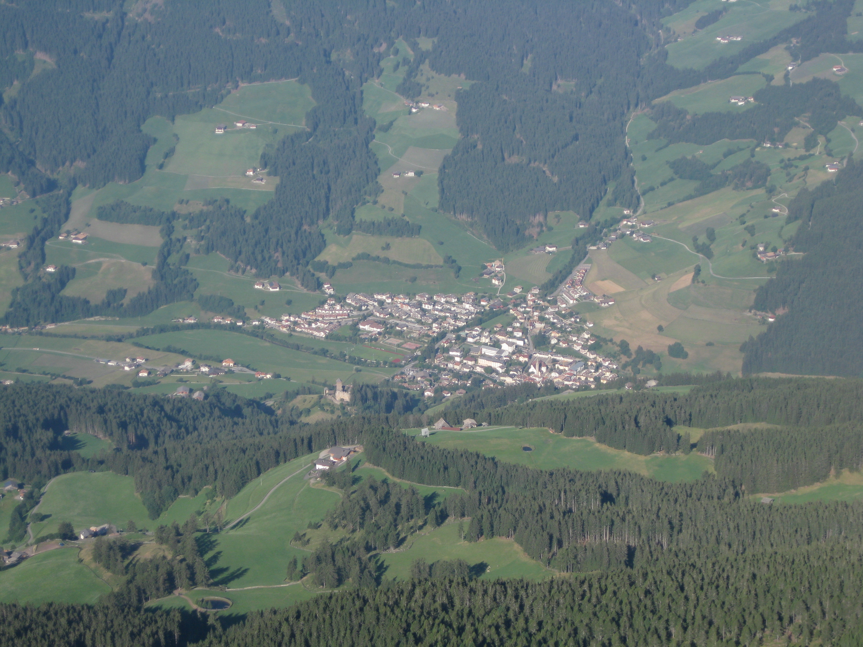 Sarnthein in the Sarntal valley (South Tyrol) as seen from the Sarner Scharte mountain